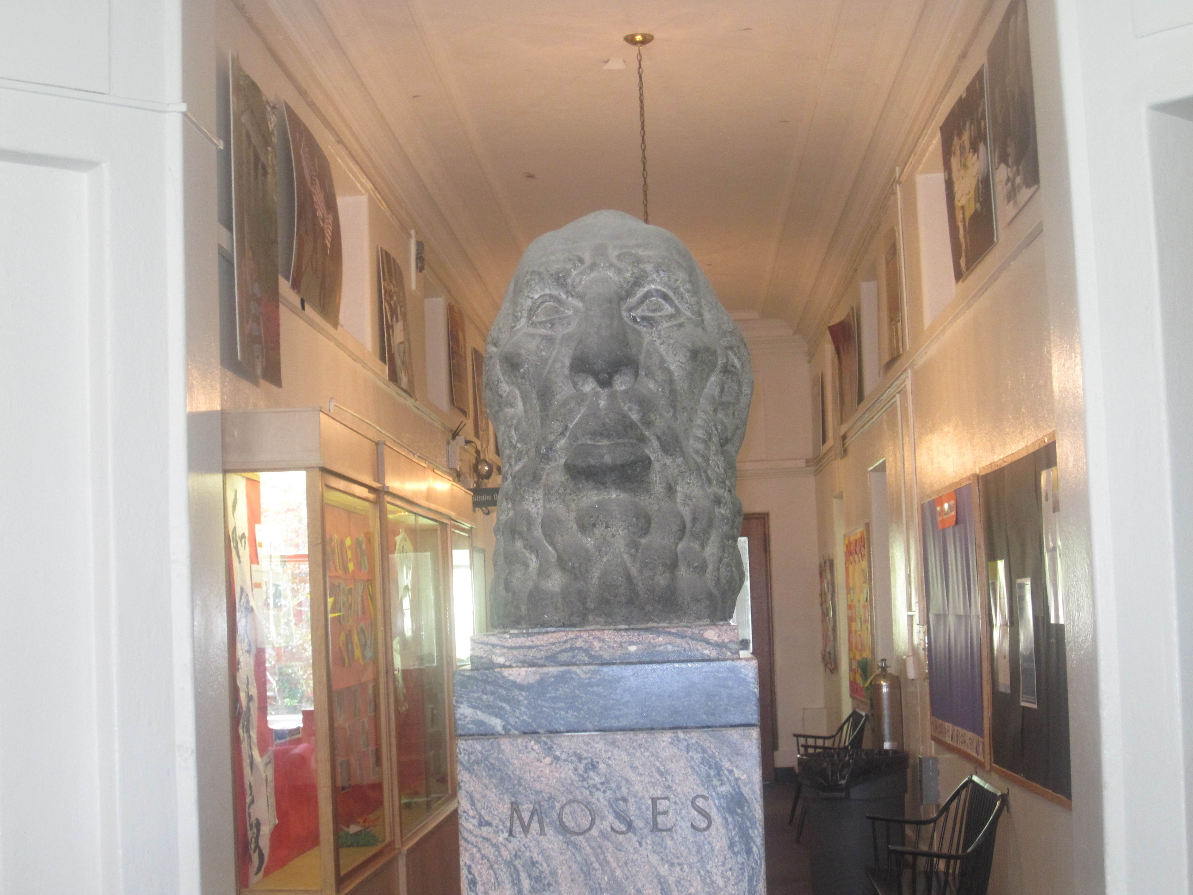 Bust of Moses at Earl Hall at Columbia University, NYC